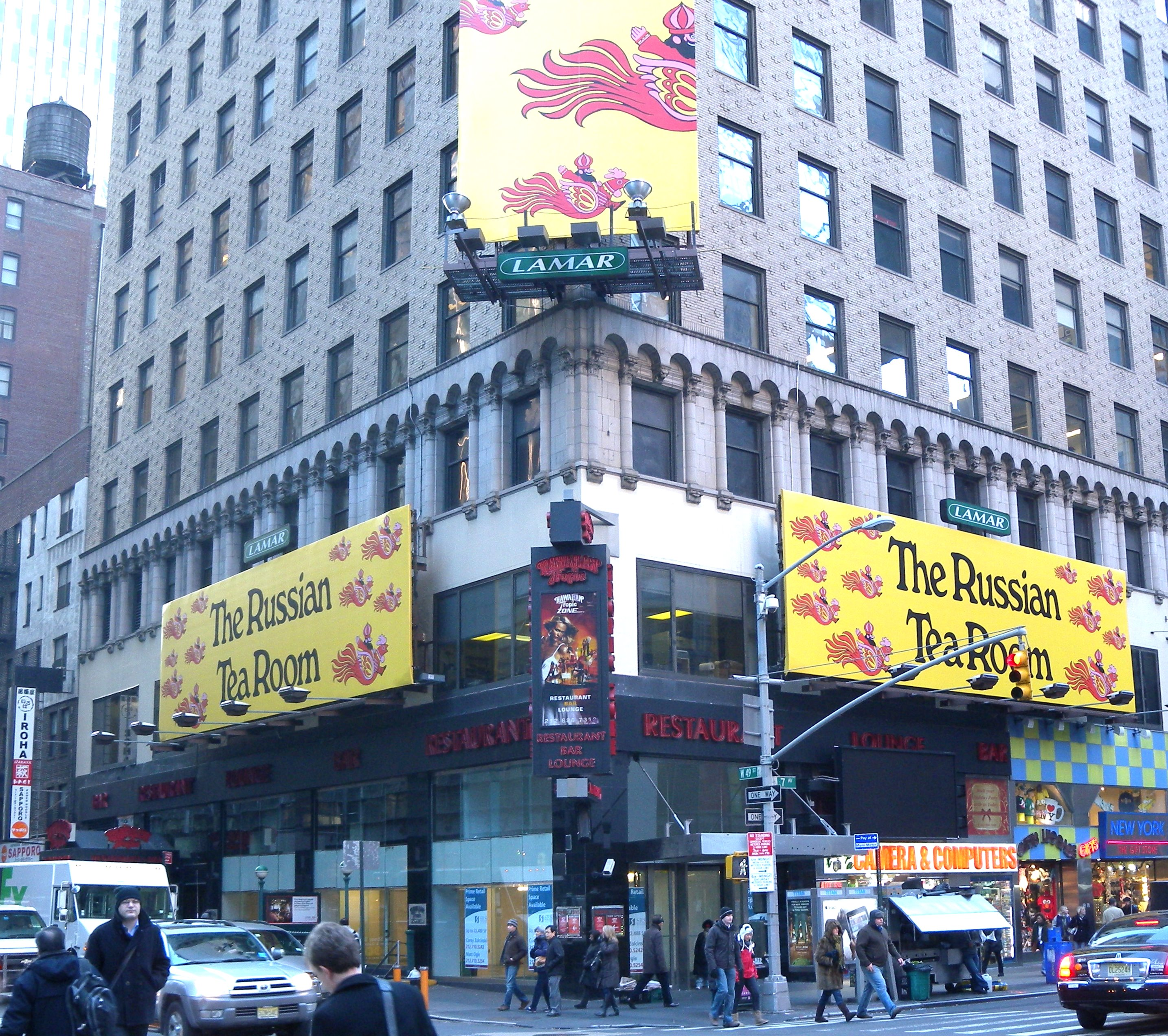 Looking southeast across 7th Ave and 49th at former Hawaiian Tropic Zone, now with signage promoting a restaurant half a mile away.